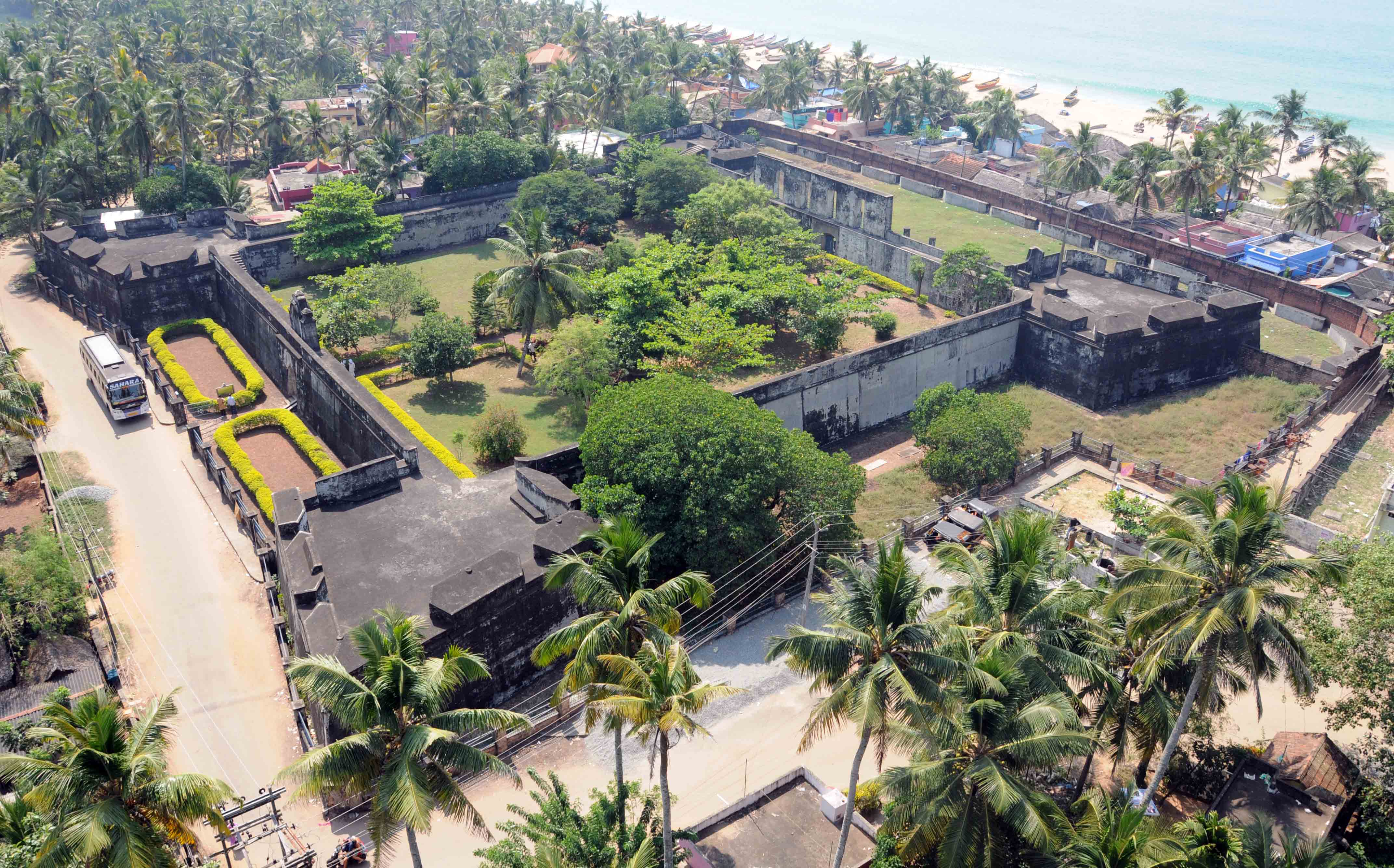 Anchuthengu, formerly known as Anjengo, is a coastal town in the Thiruvananthapuram District of Kerala. This was an old Portuguese settlement lies between Kollam and Thiruvananthapuram, near Varkala.